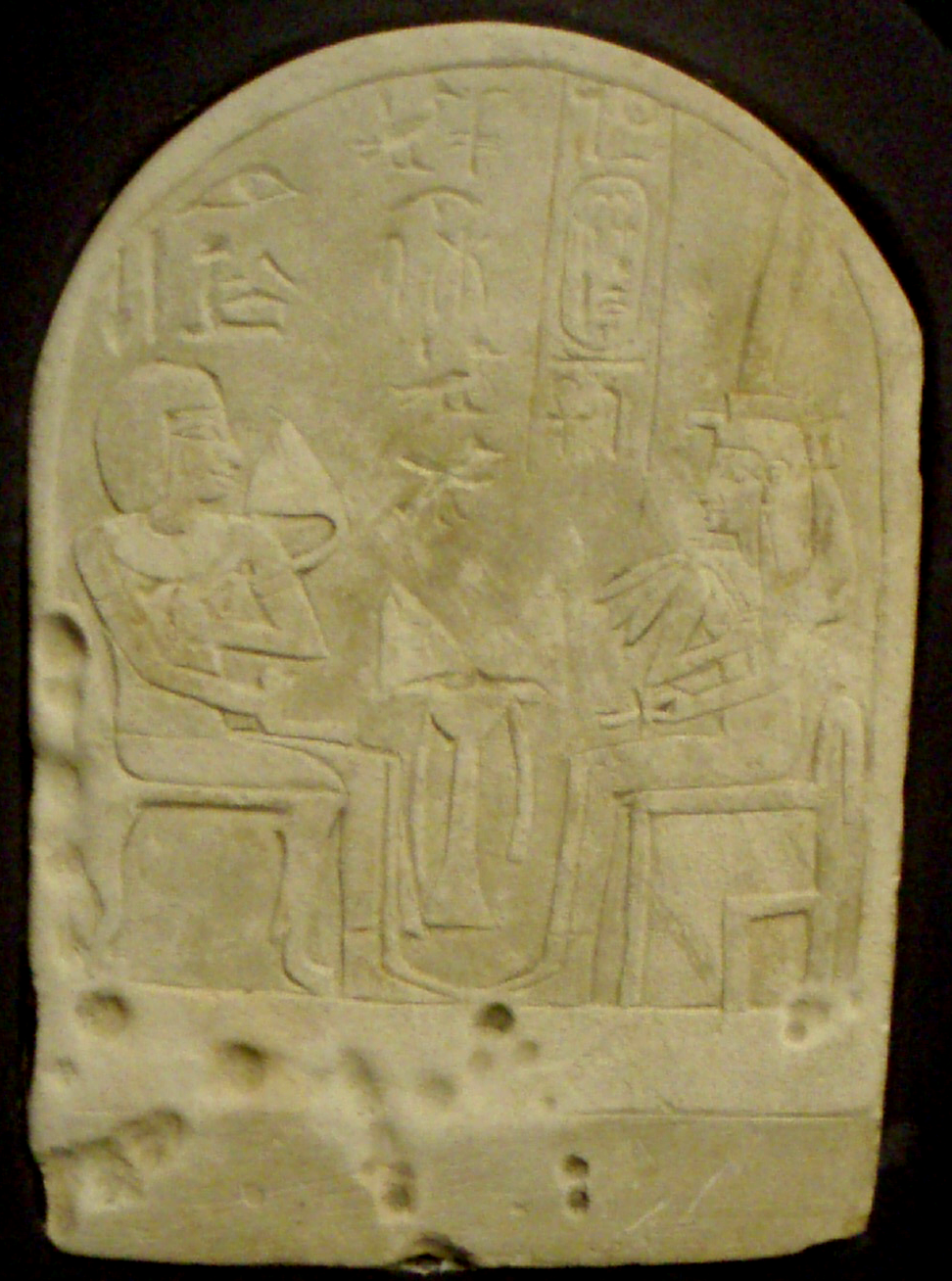 Stela dedicated to Queen Ahmose-Nefertari, and Prince Ahmose Sipairi, early 18th dynasty.